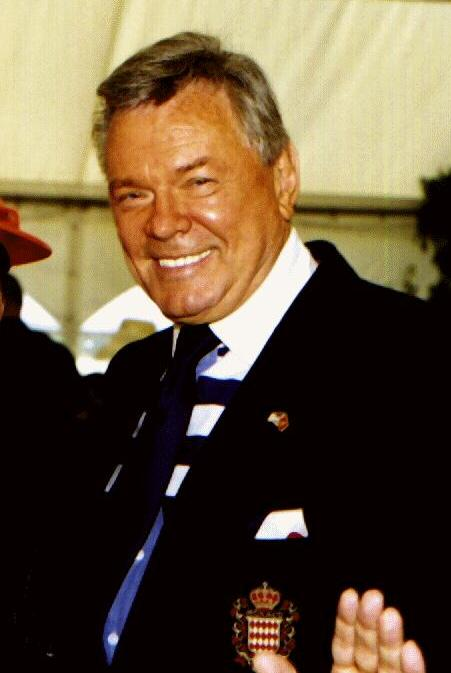 Ralph Wolfe Cowan, American portrait artist, at a Red Cross charity event, USA, 2000.